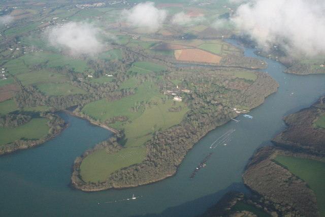 Trelissick Gardens. The old House and Gardens are a National Treasure, and a local treat for walkers and gardeners alike